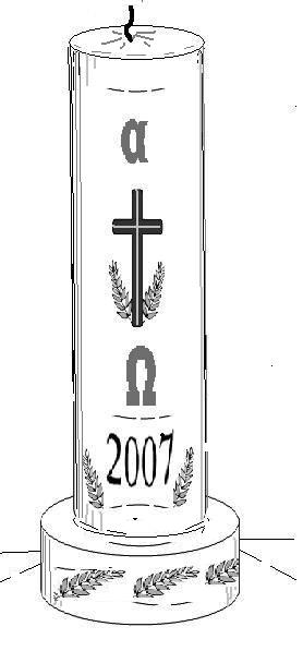 Paschal candle.